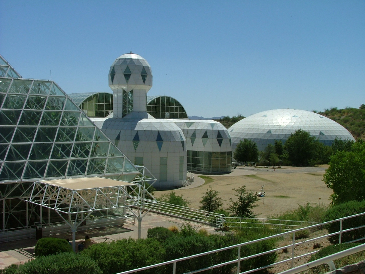 View of Biosphere 2, Habitat & Lung. The habitat is where the crew lived during the mission. The lung is what maintains air pressure inside the structure.